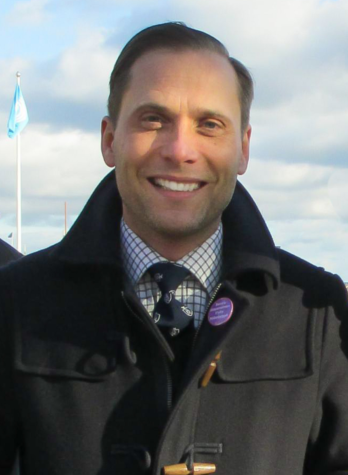 Christopher O'Regan at demonstration against ugly buildingPlace: Nybroplan, Stockholm, Sweden